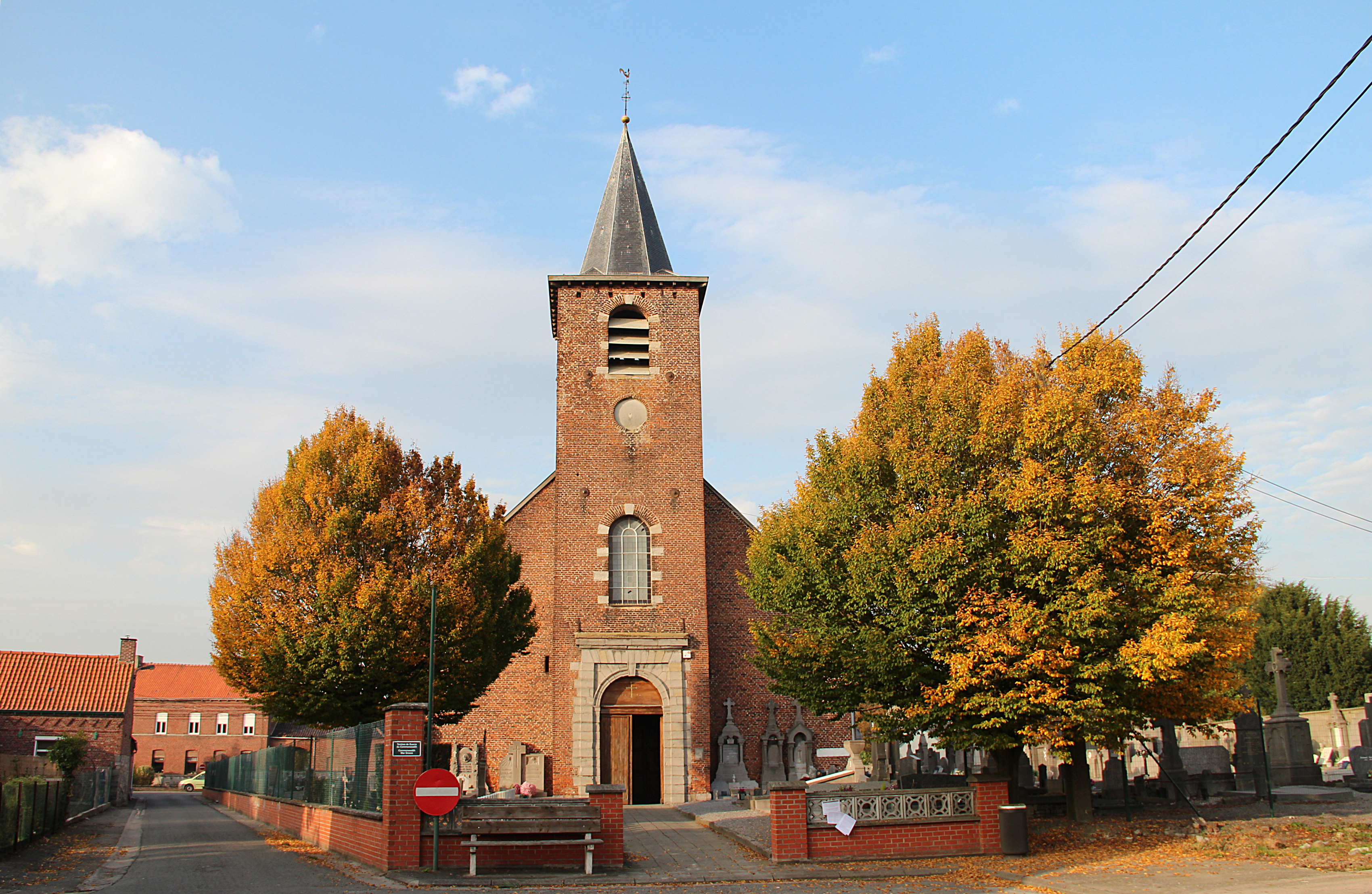 Esplechin (Belgium), the Saint Martin's church (XVIIIth cetury).